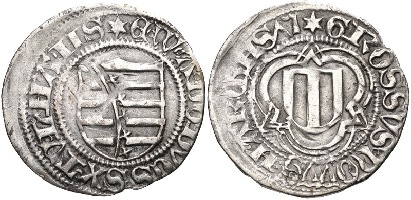 GERMANY, Sachsen (Kurfürstentum). Ernst, with Albrecht & Wilhelm III. 1465-1482. AR Sptizgroschen (20mm, 1.57 g, 5h). Leipzig mint. Dated (14)Λ5 (1475). Coat-of-arms / Coat-of-arms within trilobe. Levinson I-148. Good VF.